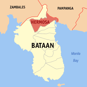 Map of Bataan showing the location of Hermosa